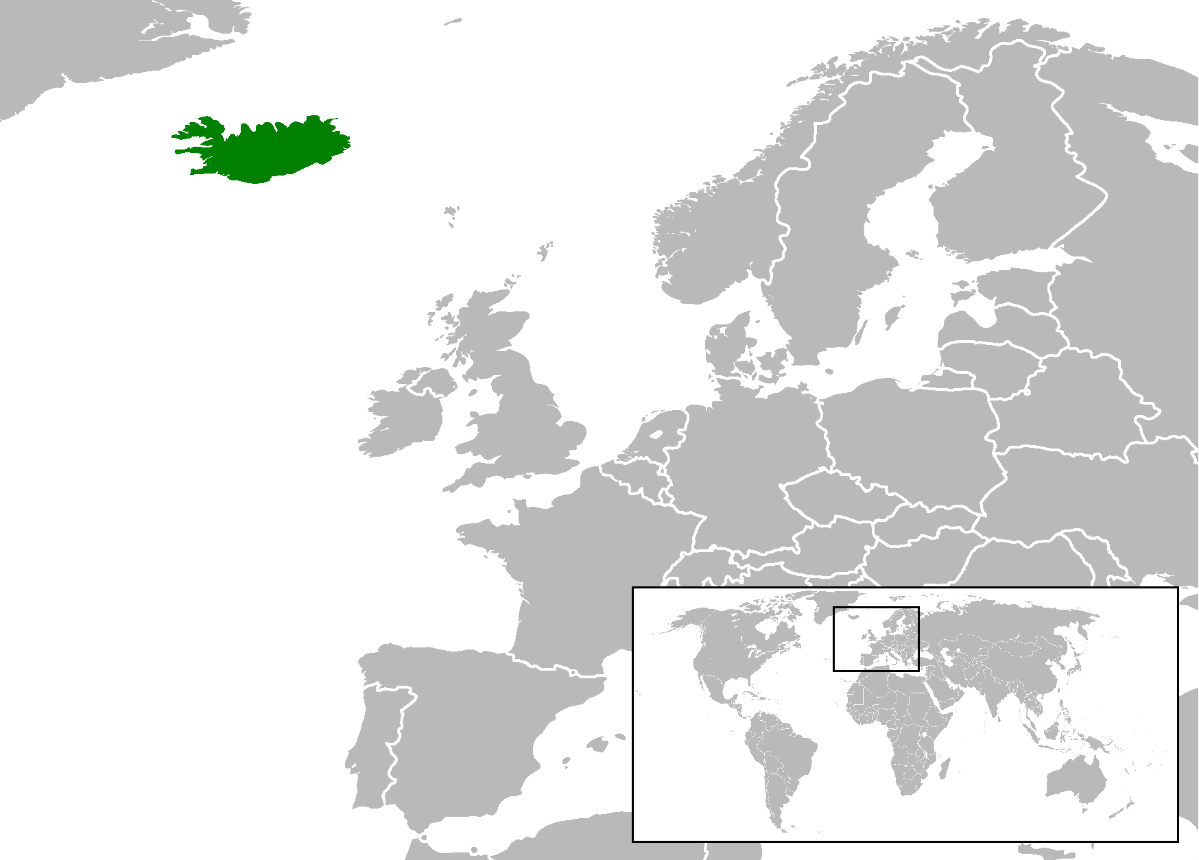 Location of Iceland in Europe